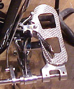 This pedal is on a Dresden timpano. The timpanist must disengage the clutch – seen here on the left of the pedal – to change the pitch of the drum. A modern example of the "Dresden" foot pedal.